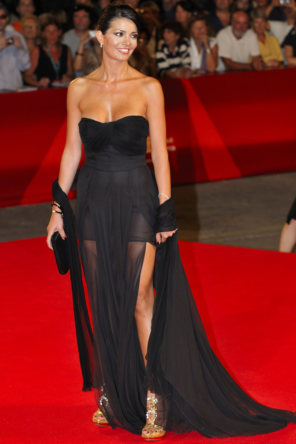 Laura Torrisi at 2009 Venice Film Festival